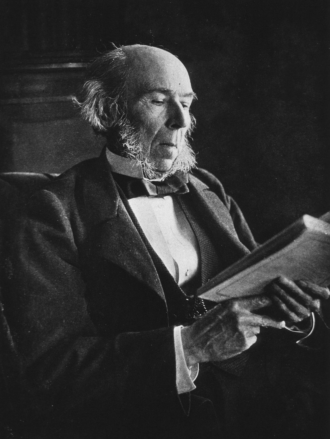 Herbert Spencer (1820-1903)